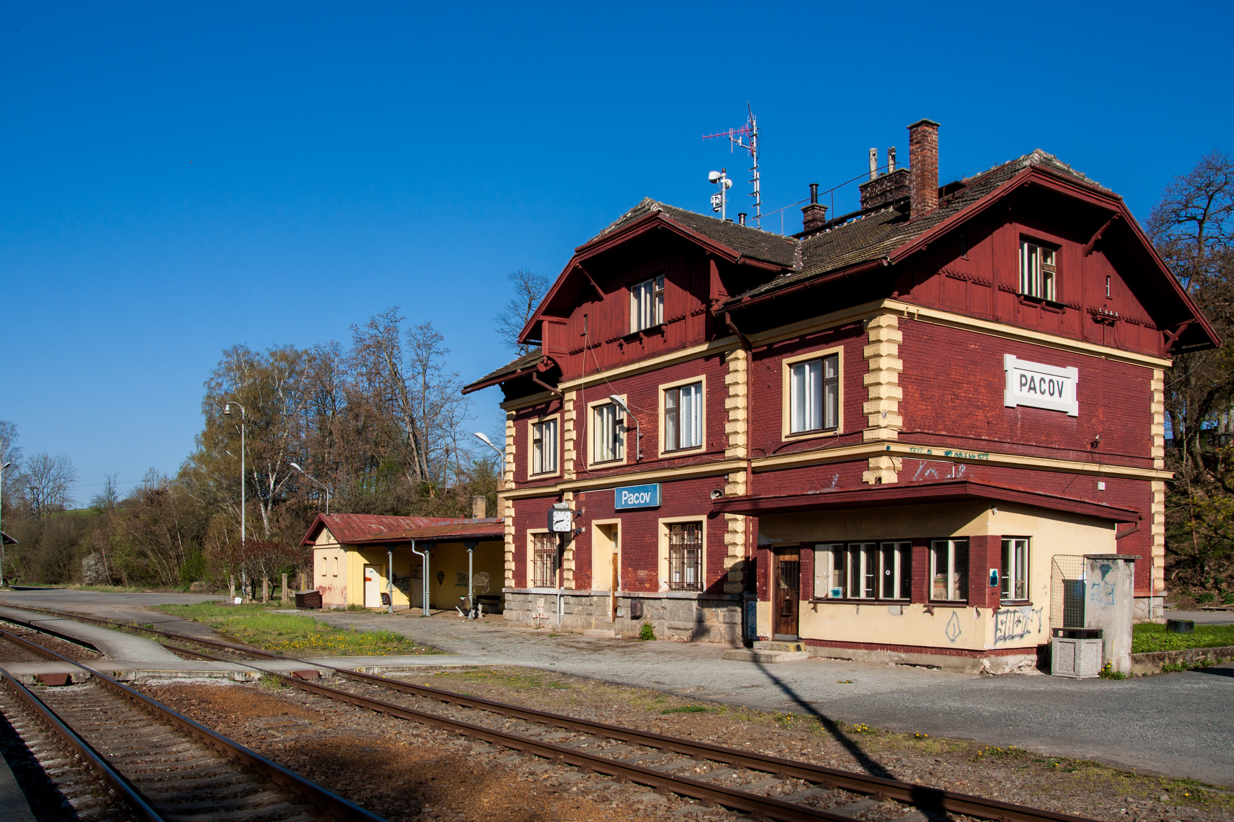 Train station in Pacov, Pelhřimov District, Vysočina Region, CzechiaTemplate:Wikiedpedice Mladá Vožice